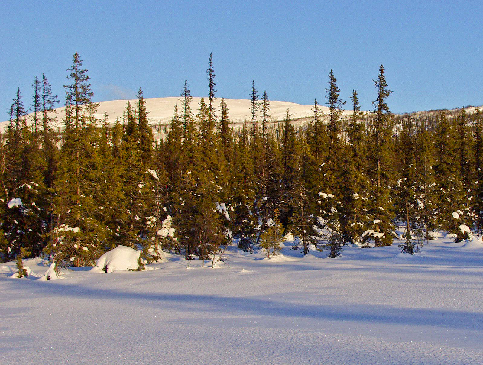 Picea × fennica in northern Sweden